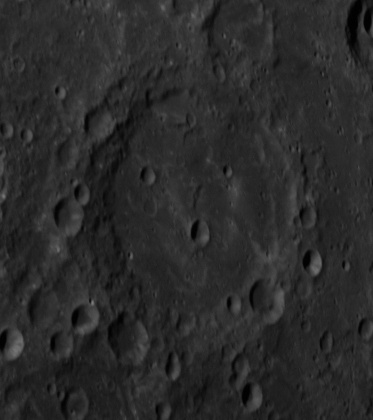 Oblique view of Fleming, on the far side of the moon. North is at top.